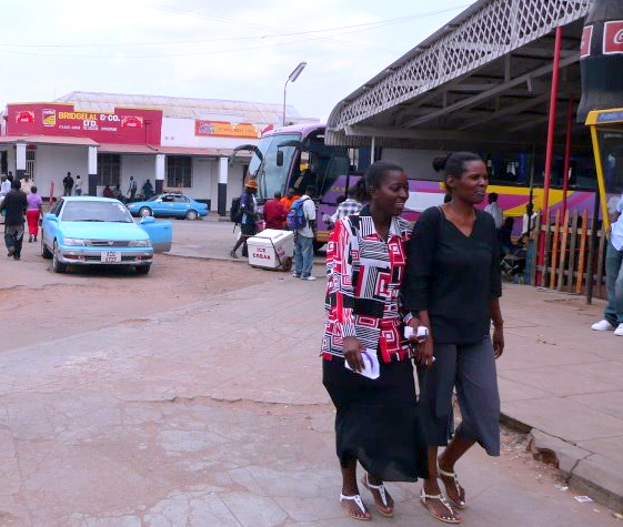 Sunday best